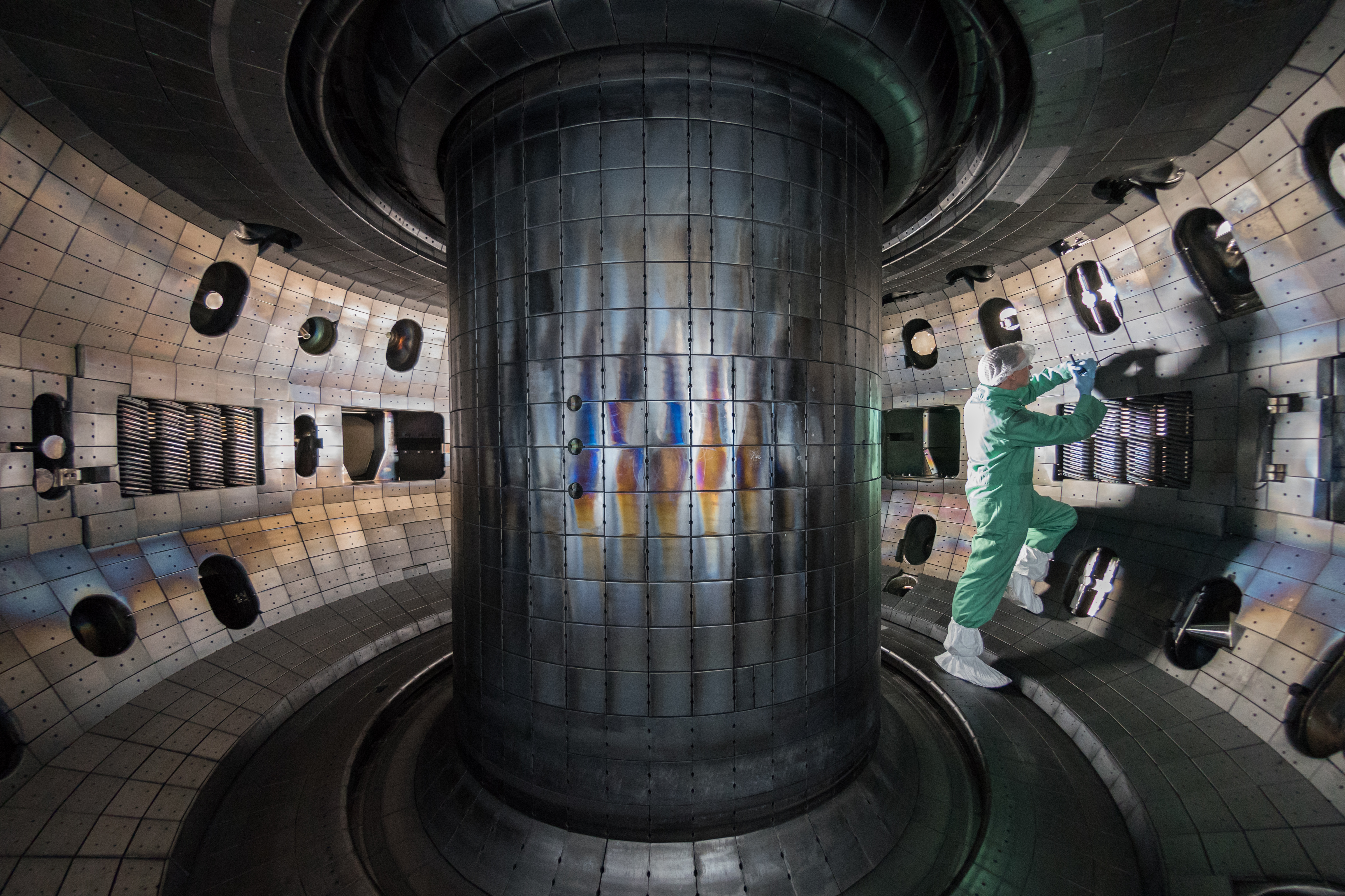 A worker inside the DIII-D vacuum vessel during a maintenance period in 2017